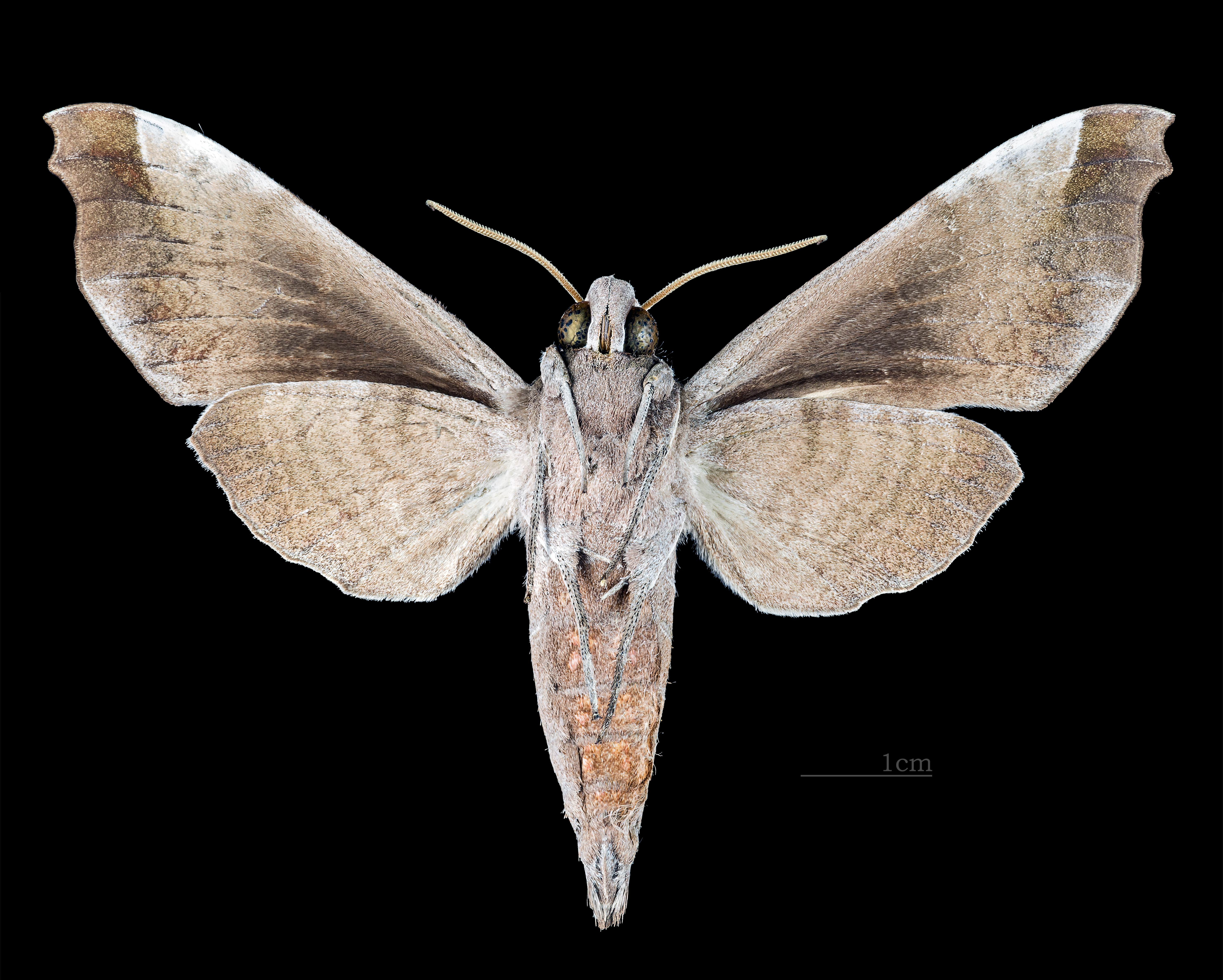 Acosmeryx miskini - △ Ventral side Collection of the Mathematician Laurent Schwartz